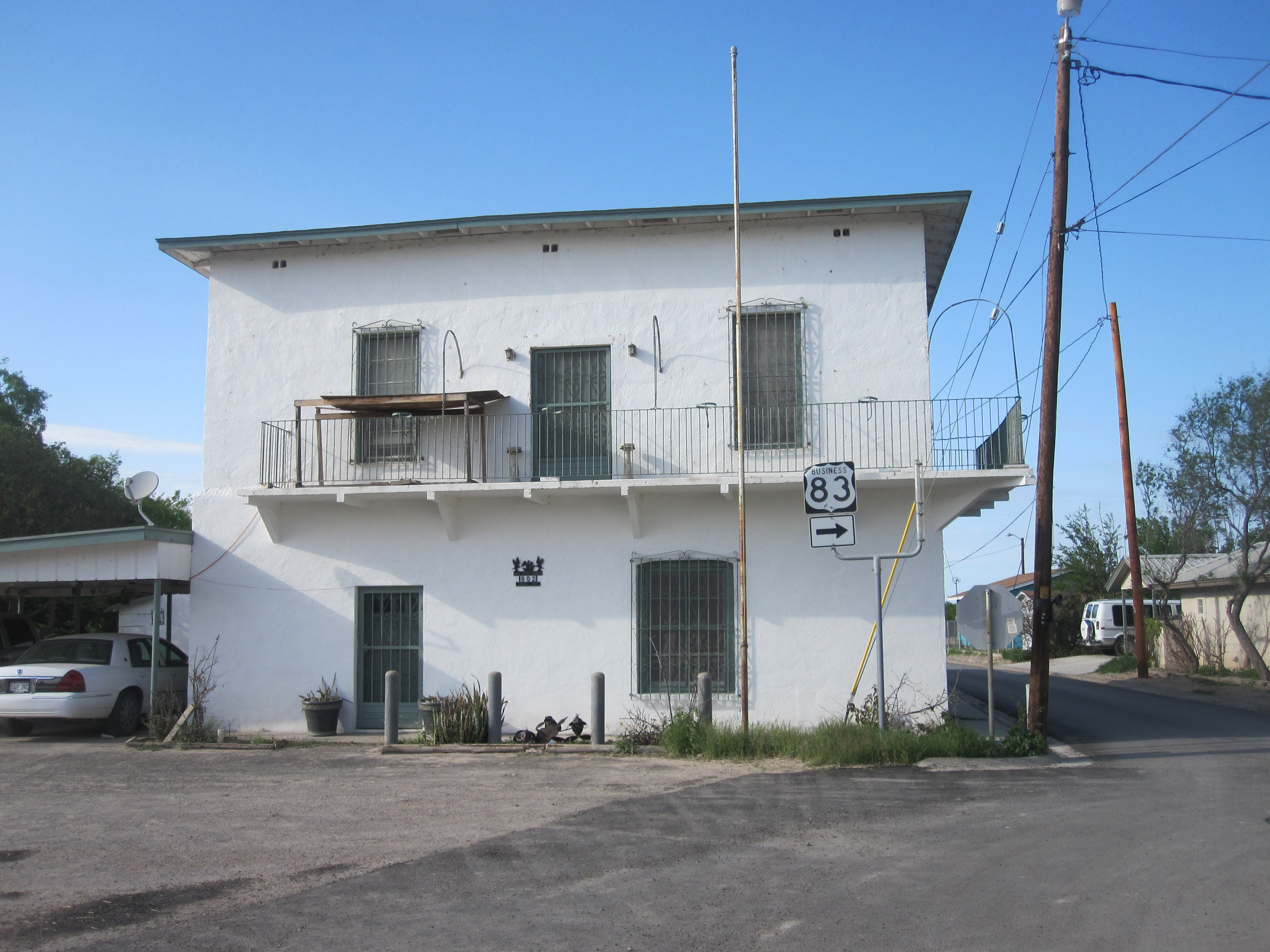 I took picture with Canon camera.